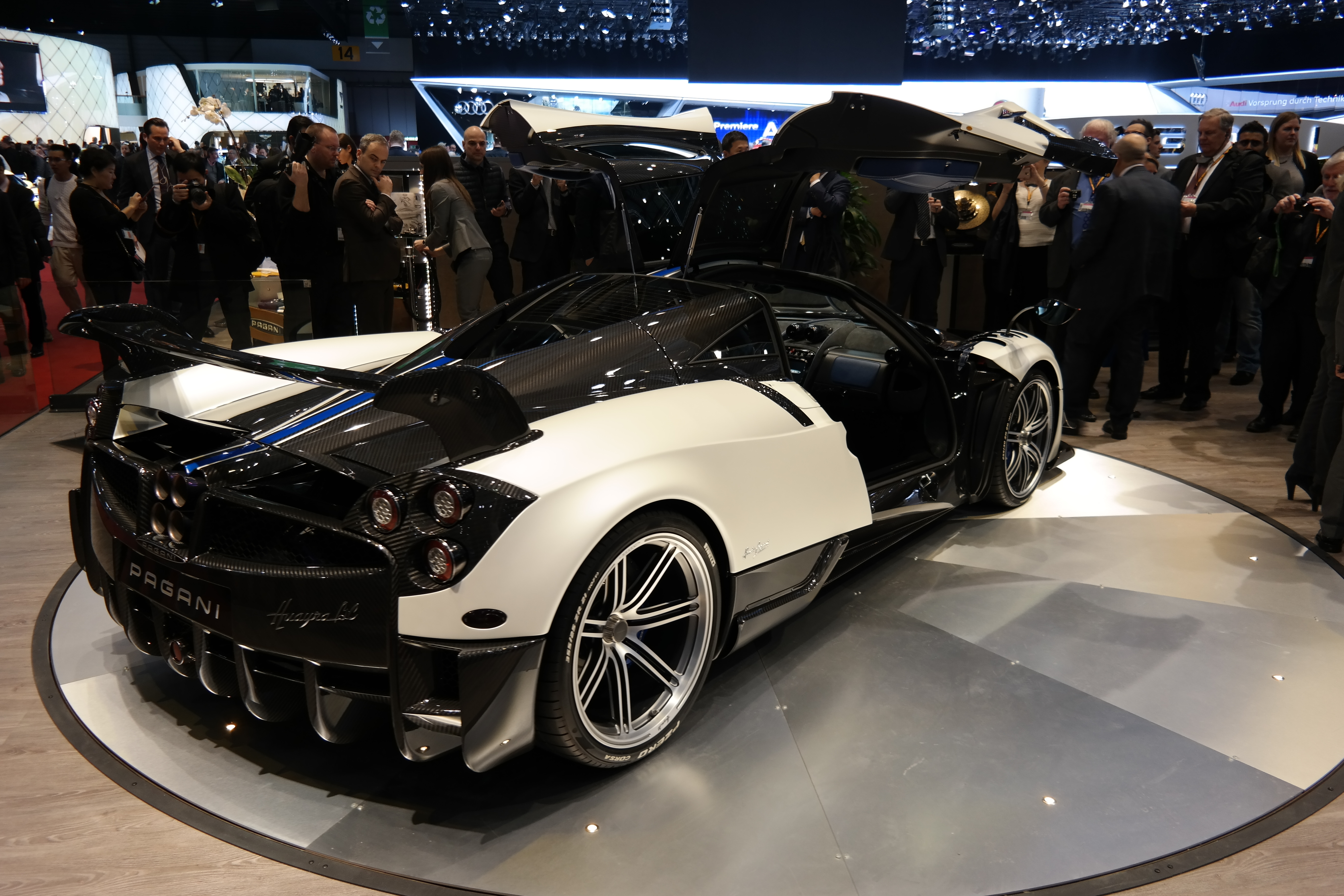 Geneva Motor Show 2016 (photo taken on the first press day)